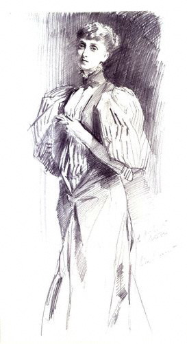 Portrait of Alice Meynell (1847-1922). Alice Christiana Gertrude Thompson Meynell (22 September 1847 - 27 November 1922) was an English writer, editor, critic, and suffragist, now remembered mainly as a poet.